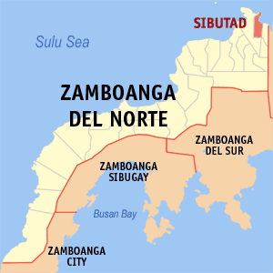 Map of the Zamboanga del Norte showing the location of Sibutad